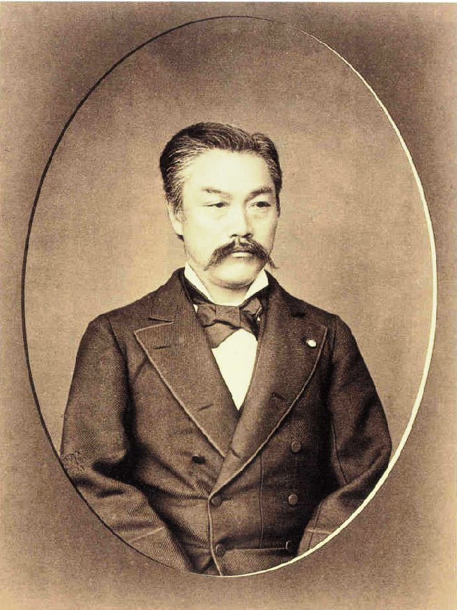 Prince Matsukata Masayoshi (松方 正義?, 25 February 1835 – 2 July 1924) was a Japanese politician and the 4th (6 May 1891 – 8 August 1892) and 6th (18 September 1896 -12 January 1898) Prime Minister of Japan.